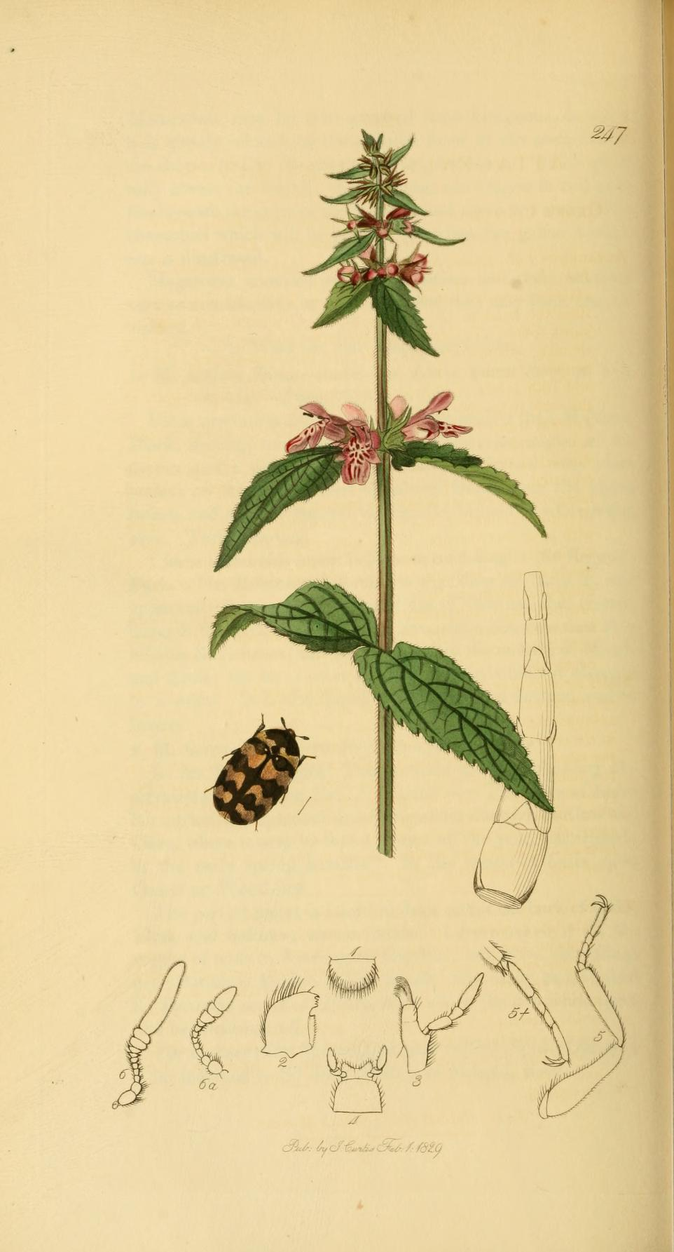 An illustration from British Entomology by John Curtis. Coleoptera: Attagenus trifasciatus (Banded Attagenus).The plant is Stachys palustris (Marsh Woundwort)